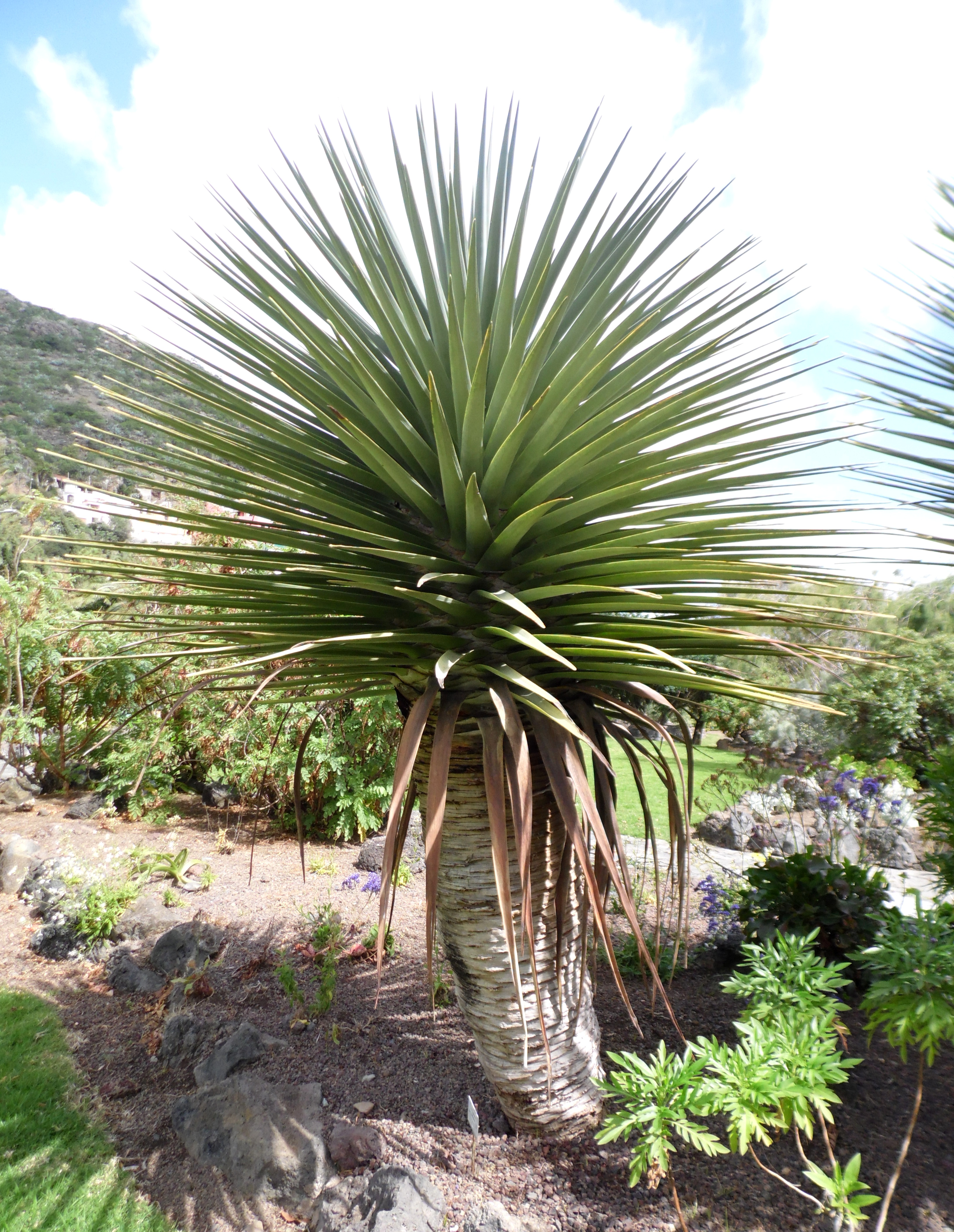 Dracaena tamaranae in Jardín Botánico Canario Viera y Clavijo